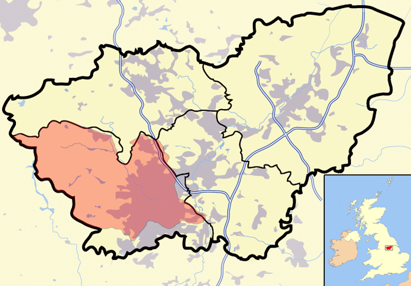 A map showing the historic district of Hallamshire as described in the reign of Edward III (1327–1377) superimposed on the modern divisions of South Yorkshire in the United Kingdom. Note, the area shown is significantly larger than the manor of Hallam described in the Domesday Book.